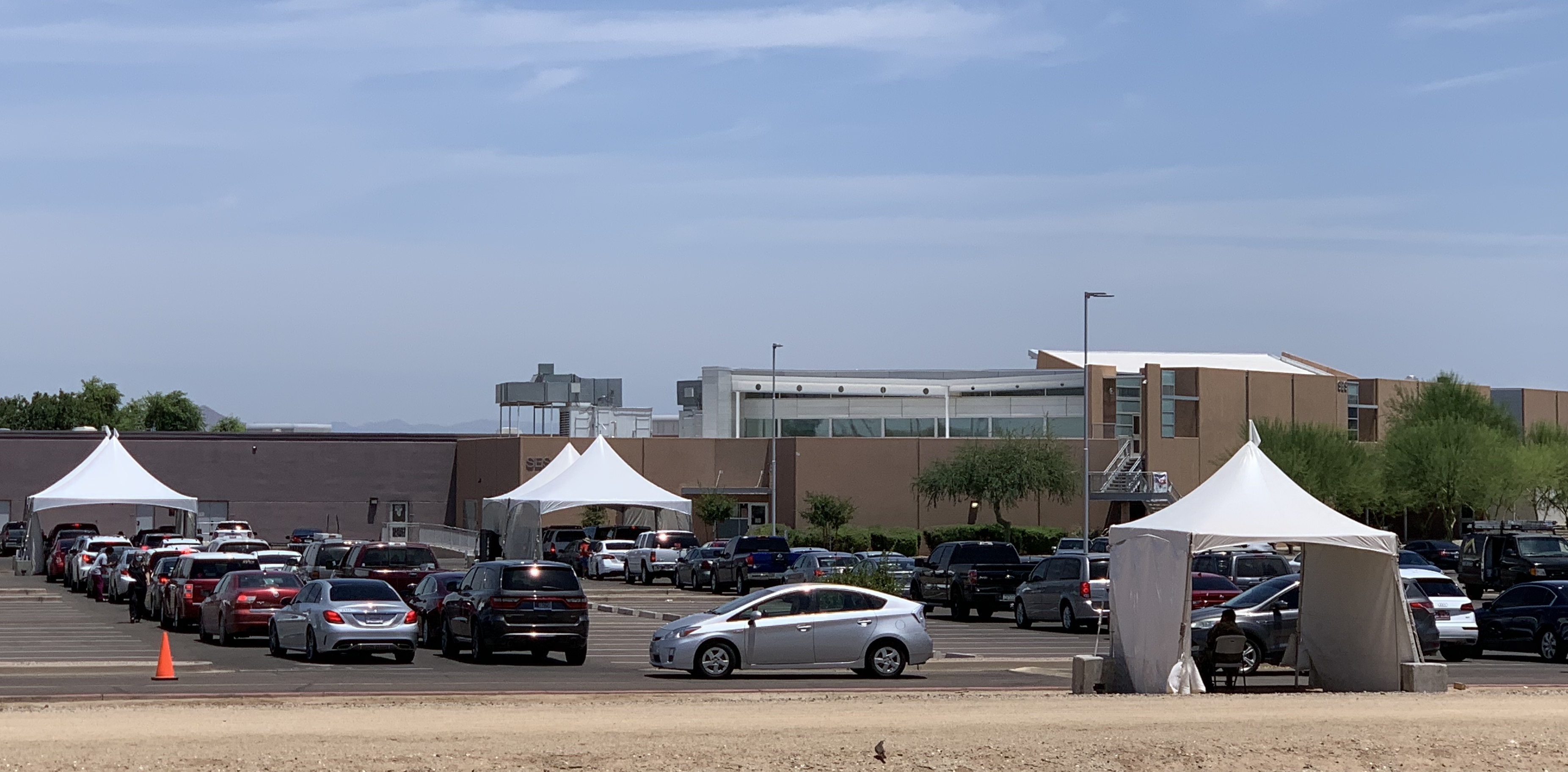 COVID-19 testing site at South Mountain Community College in Phoenix, Arizona on July 10, 2020. The line of cars snakes through the parking lot and wraps around the buildings.